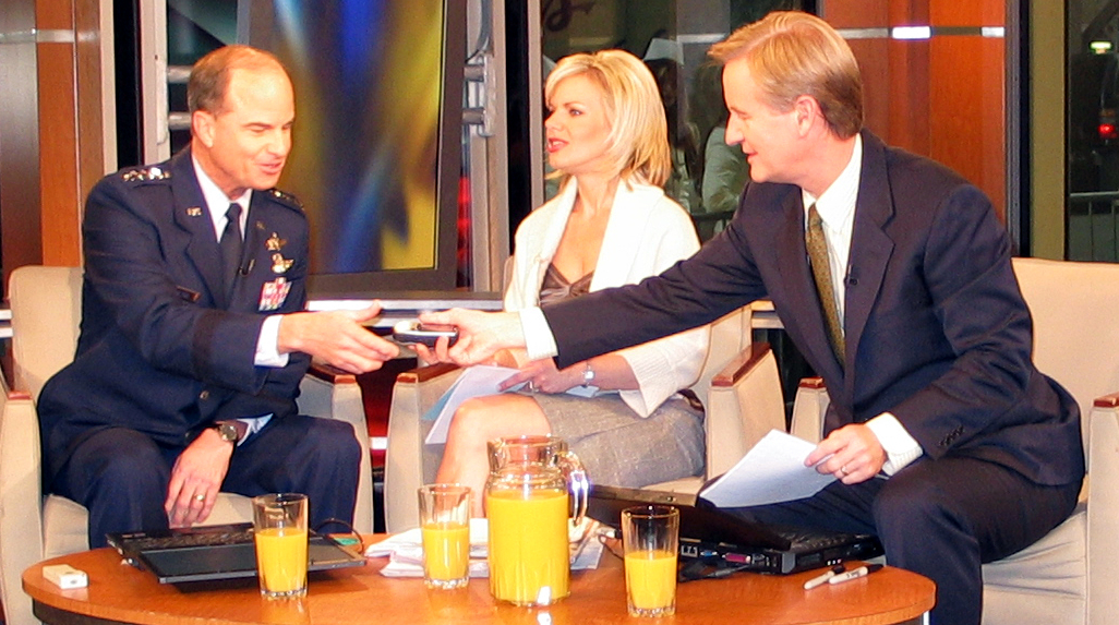 United States Air Force Space Command commander General Kevin Chilton passing a handheld Global Positioning System receiver to FOX & Friends co-host Steve Doocy, with co-host Gretchen Carlson in the middle, during an interview with them. Cropped and balanced.